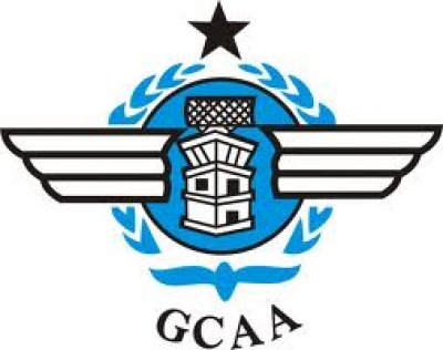 Ghana Civil Aviation Authority (GCAA) logo.